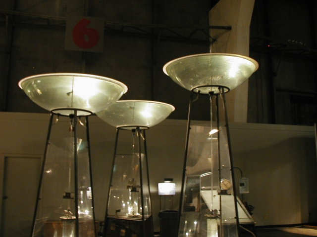 Geyser Generator: Taken at the Exploratorium in San Francisco. This thing generates geysers at regular intervals.